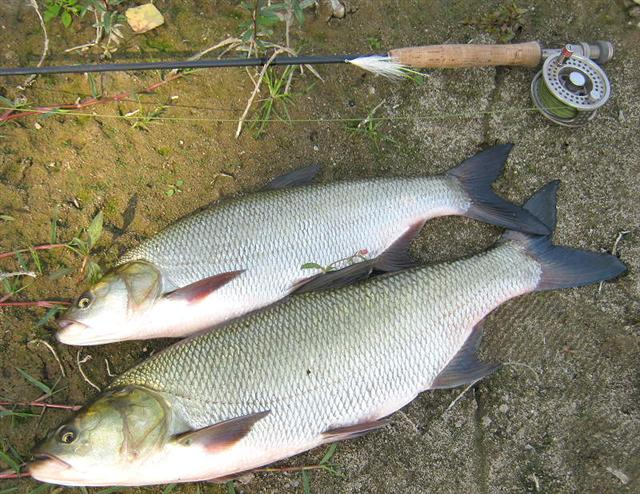 Aspius aspius catched in Južna Morava river, Serbia.